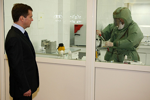 KOSTROMA. At the NBC Protection Military Academy, named after Marshal of the Soviet Union Semyon Timoshenko.